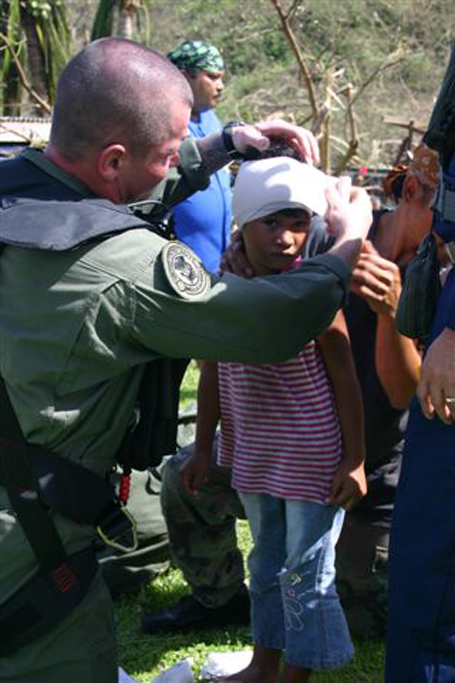 ALAMAGAN, Mariana Islands (Sept. 17, 2009) A Sailor assigned to Helicopter Sea Combat Squadron (HSC) 25 provides basic first aid to a young girl on the island of Alamagan following the aftermath of Super Typhoon Choi-Wan Sept. 17. HSC 25 embarked aboard the military sealift command dry cargo-ammunition ship USNS Alan Sheppard (T-AKE-3), delivered various supplies including food and water to residents of Alamagan, in the Northern Mariana Islands. (U.S. Navy photo/Released)